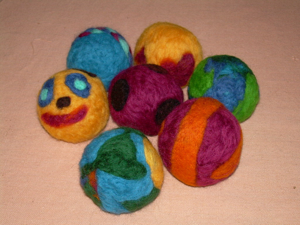 Photo of balls made by needle felting